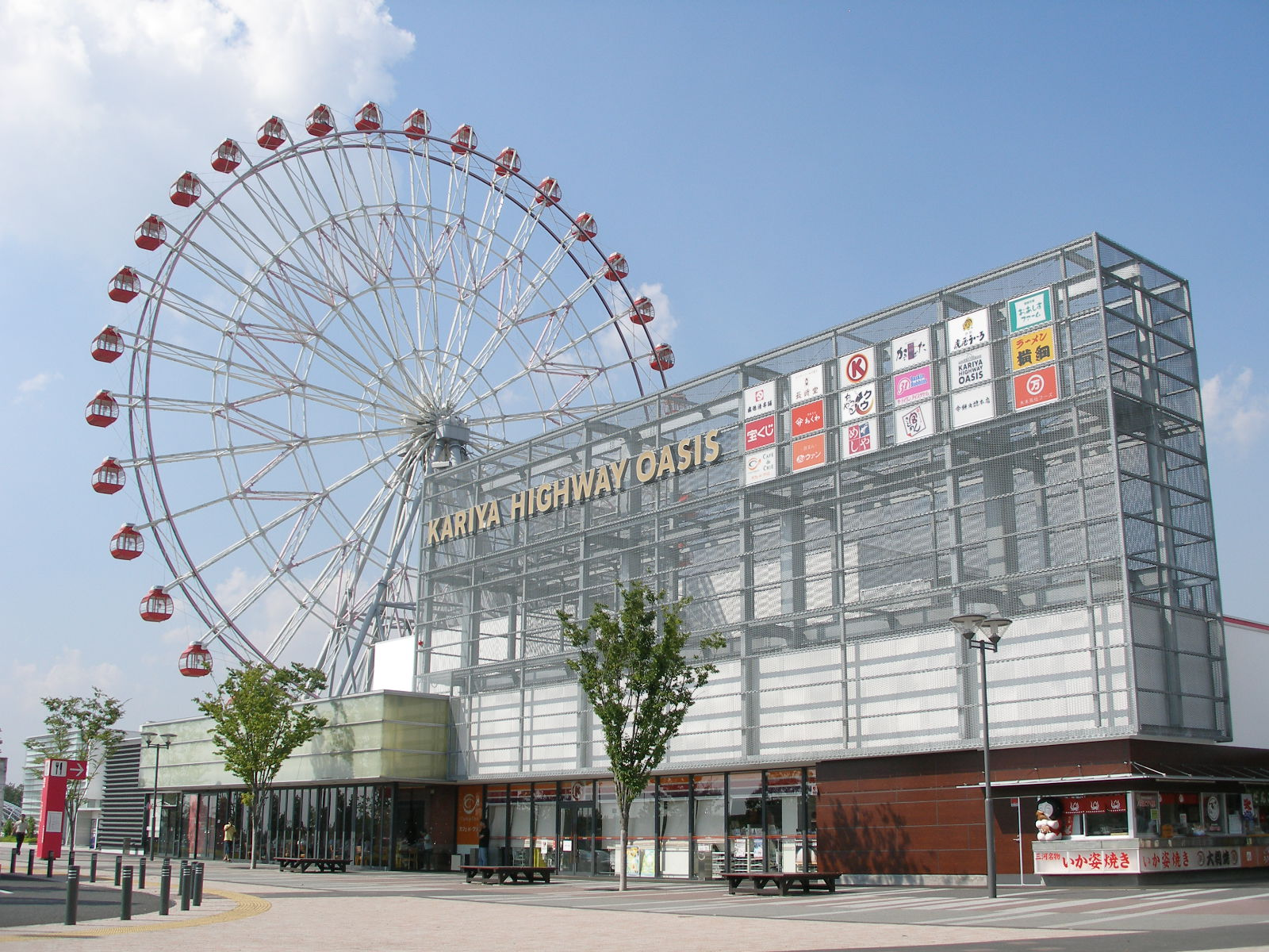 Kariya Parking Area in Kariya City, Aichi Prefecture, Japan